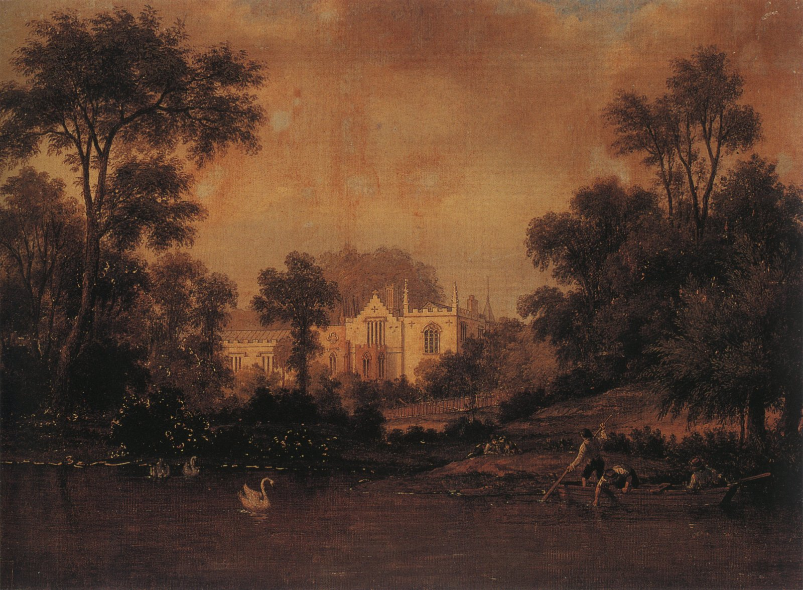 Mill in Strawberry near Thames, oil on canvas, 43.5x59.5, Lithuanian Art Museum, Vilnus